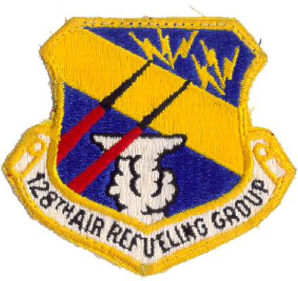 128th Air Refueling Group - Emblem.